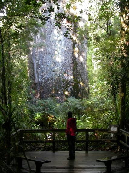 Photo of Te Matua Ngahere (Agathis australis) Northland, New Zealand, taken with a person for size reference.